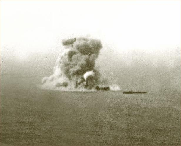 Destruction battleship Petropavlosk, 1904